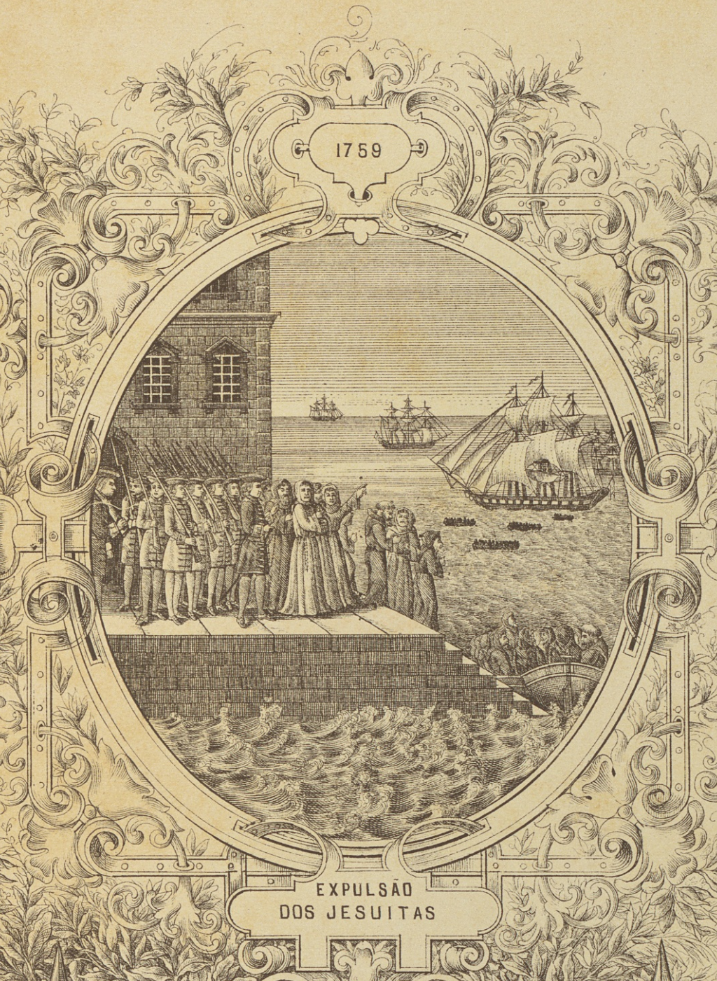 Membership diploma of the "Marquis of Pombal" mutual society (Rio de Janeiro, Brazil, 1880s). It is engraved with depictions of several episodes in the life of the Marquis de Pombal, the coats of arms of the Empire of Brazil and the Kingdom of Portugal, and a view of Lisbon.